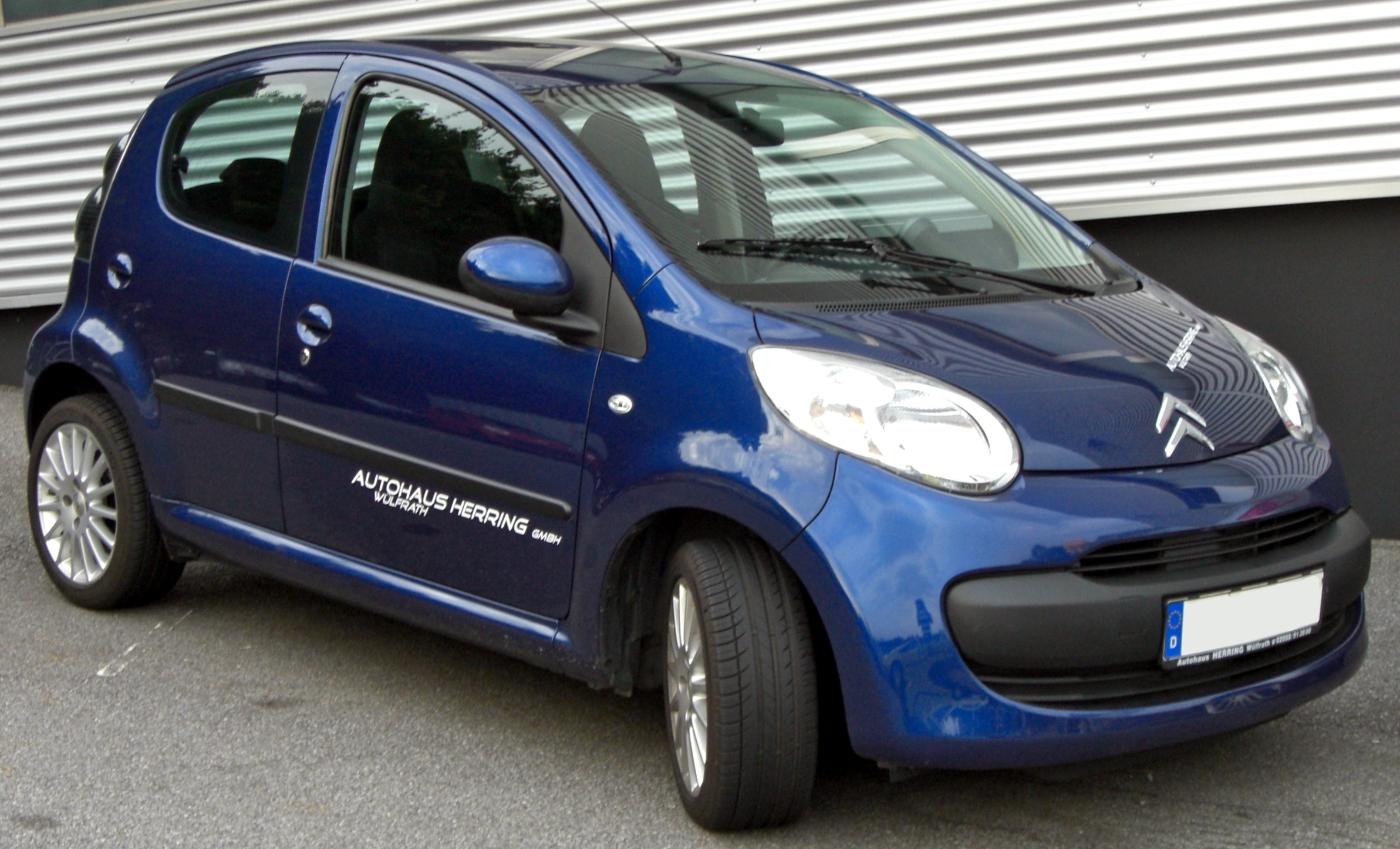 Citroën C1